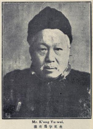 Kang Youwei (1858-1927)